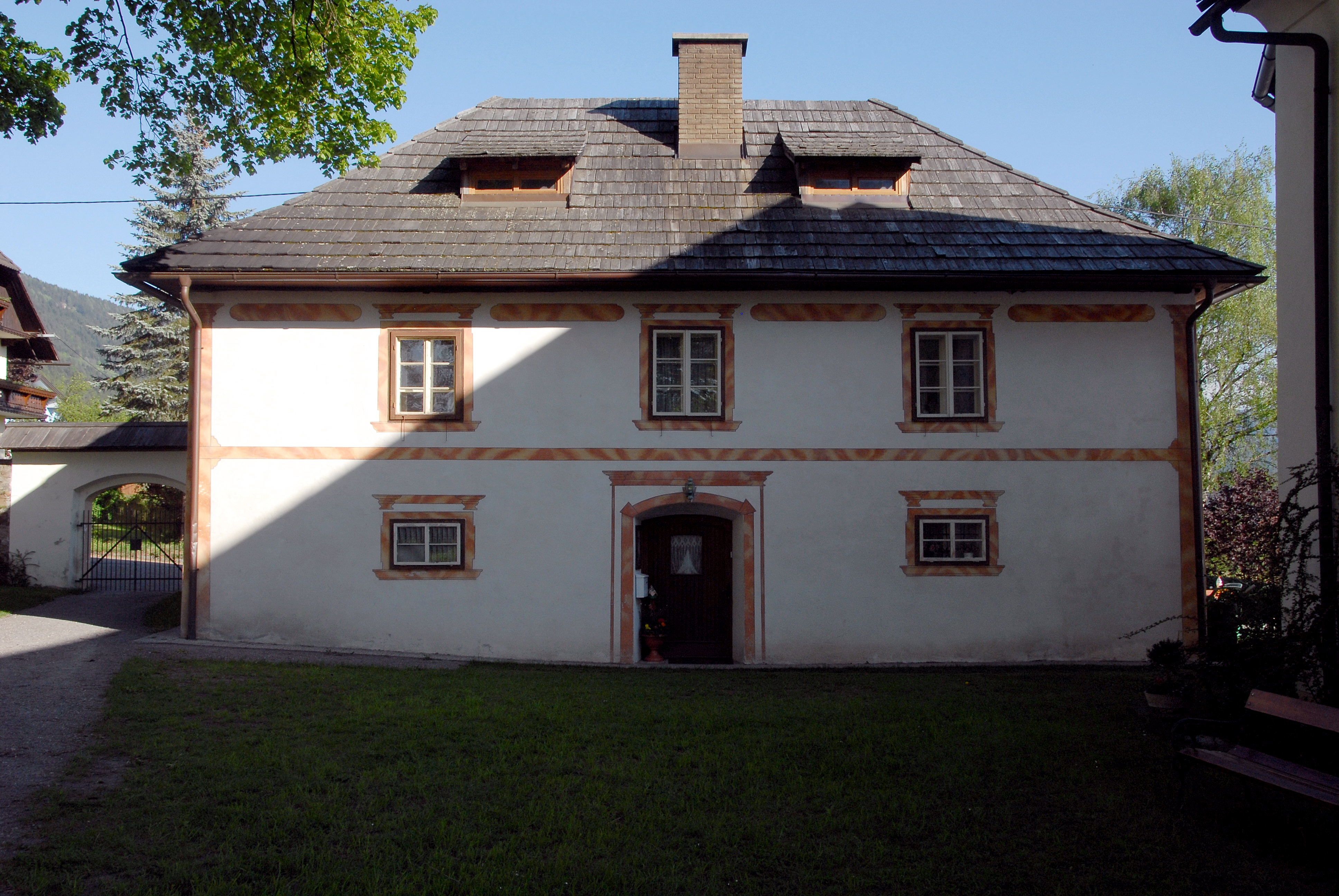 Protestant pastor house (end of 18th century) in Fresach, municipality Fresach, district Villach Land, Carinthia, Austria, EU